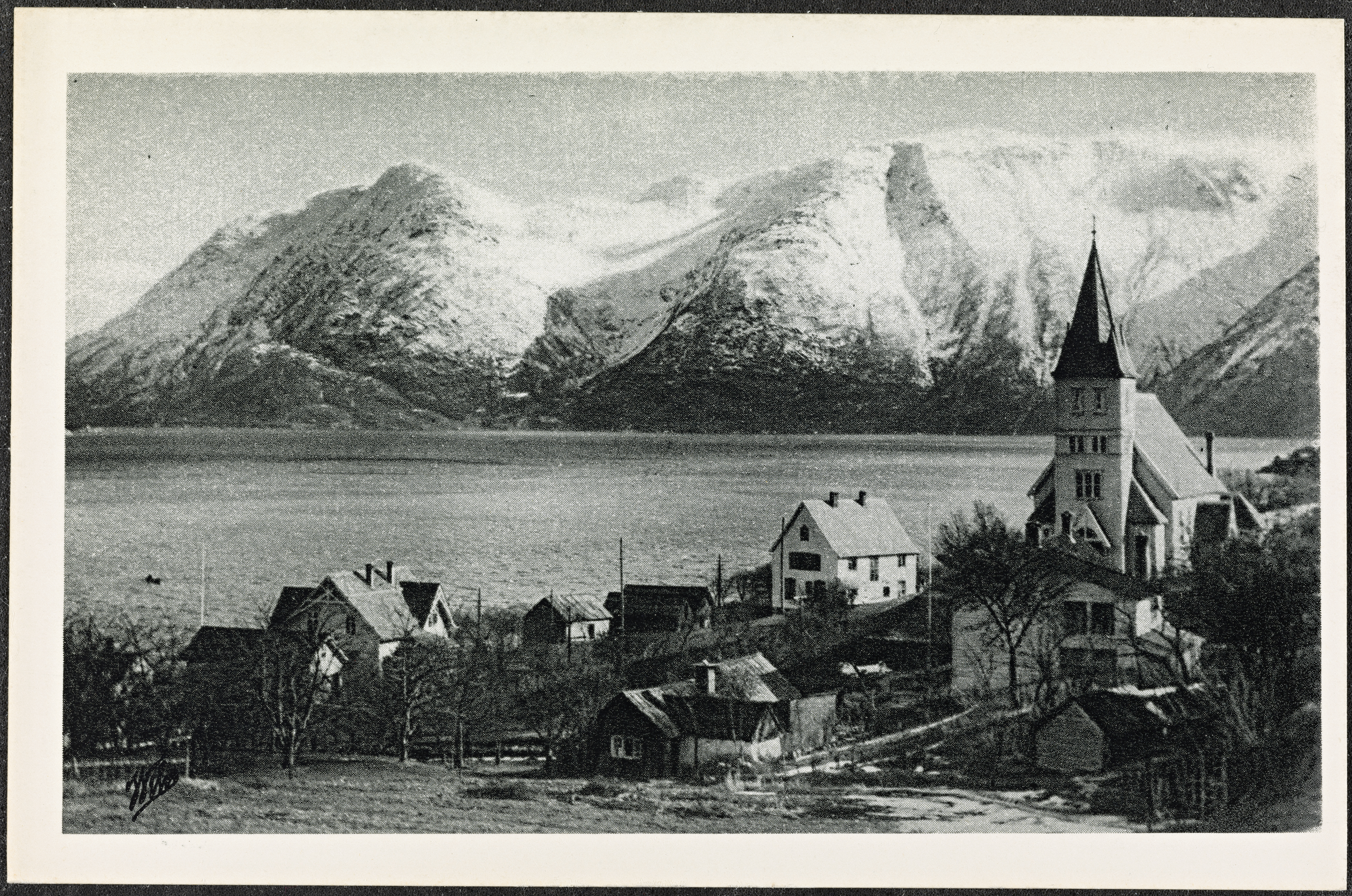 Dato / Date: 16. mars 1922, postkort utgitt ca. 1920 Sted / Place: Hordaland, Ullensvang, Utne Fotograf / Photographer: Anders Beer Wilse (1865-1949) Utgiver / Publisher: Mittet & Co. Digital kopi av original / Digital copy of original: trykt postkort Eier / Owner Institution: Nasjonalbiblioteket / National Library of Norway Lenke / Link: Bildesignatur / Image Number: blds_07304